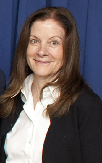 U.S. Secretary of State John Kerry poses for a photo with actors from the play 'Camp David' who are participating in the Secretary’s Open Forum at the U.S. Department of State in Washington, D.C., on April 29, 2014. [State Department photo/ Public Domain]